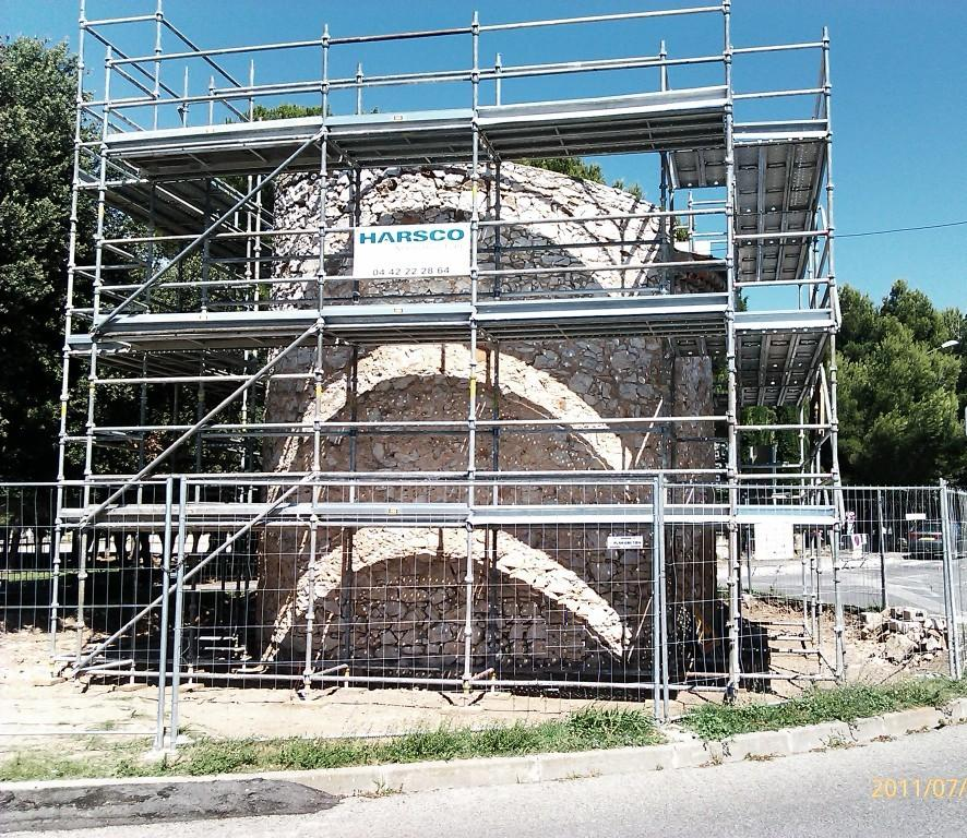 image of the windmill bertoire, after installation of scaffolding, raising of the tower wall to original height, 40 Laying coping stones.